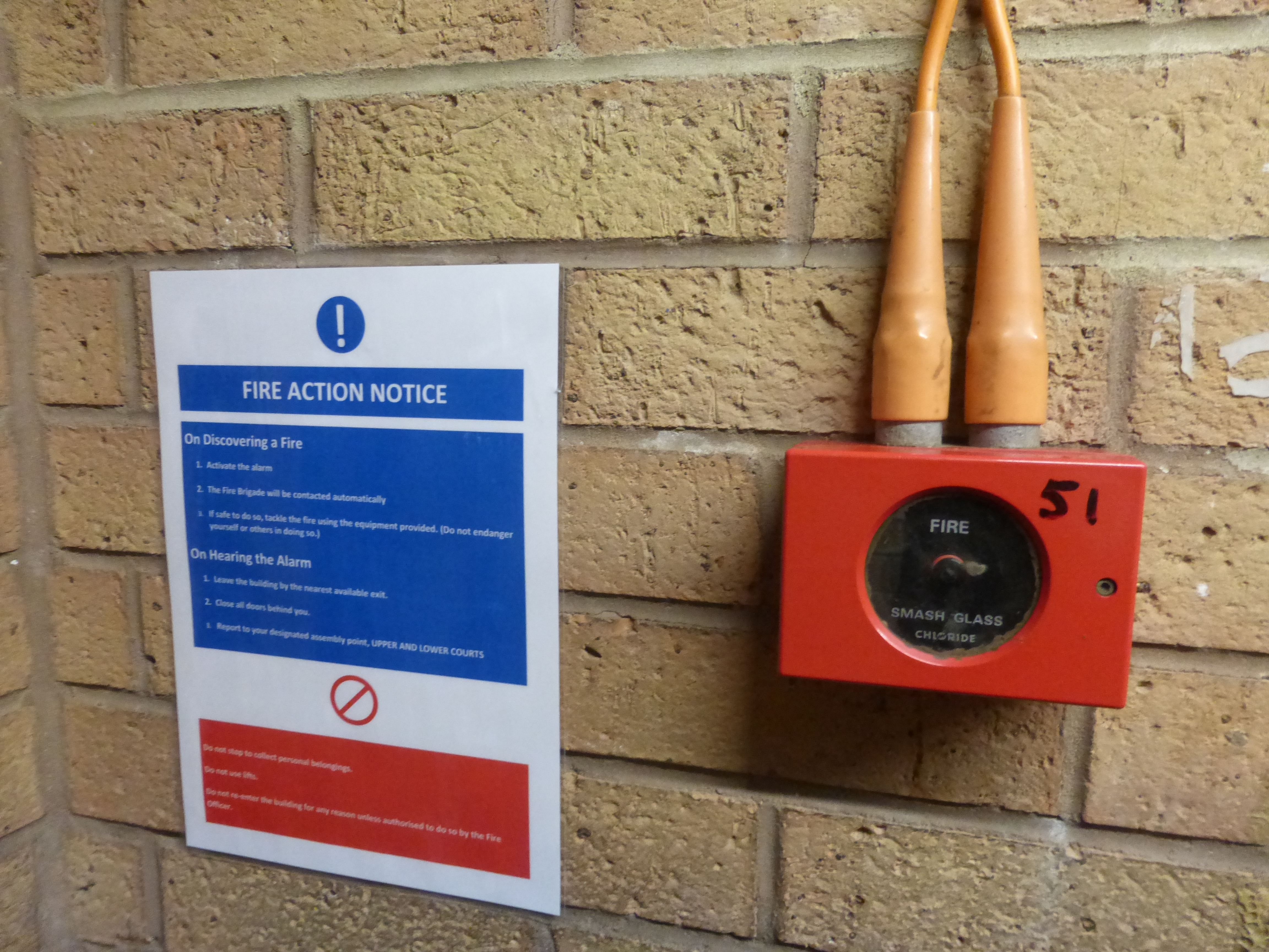 A Chloride Gent Model 1102 fire alarm manual call point dating from 1980, just before removal from a secondary school in Derbyshire, England.